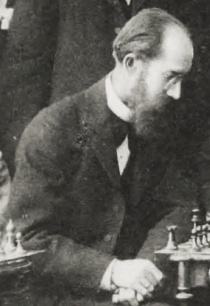 Photo of Hans Seyboth